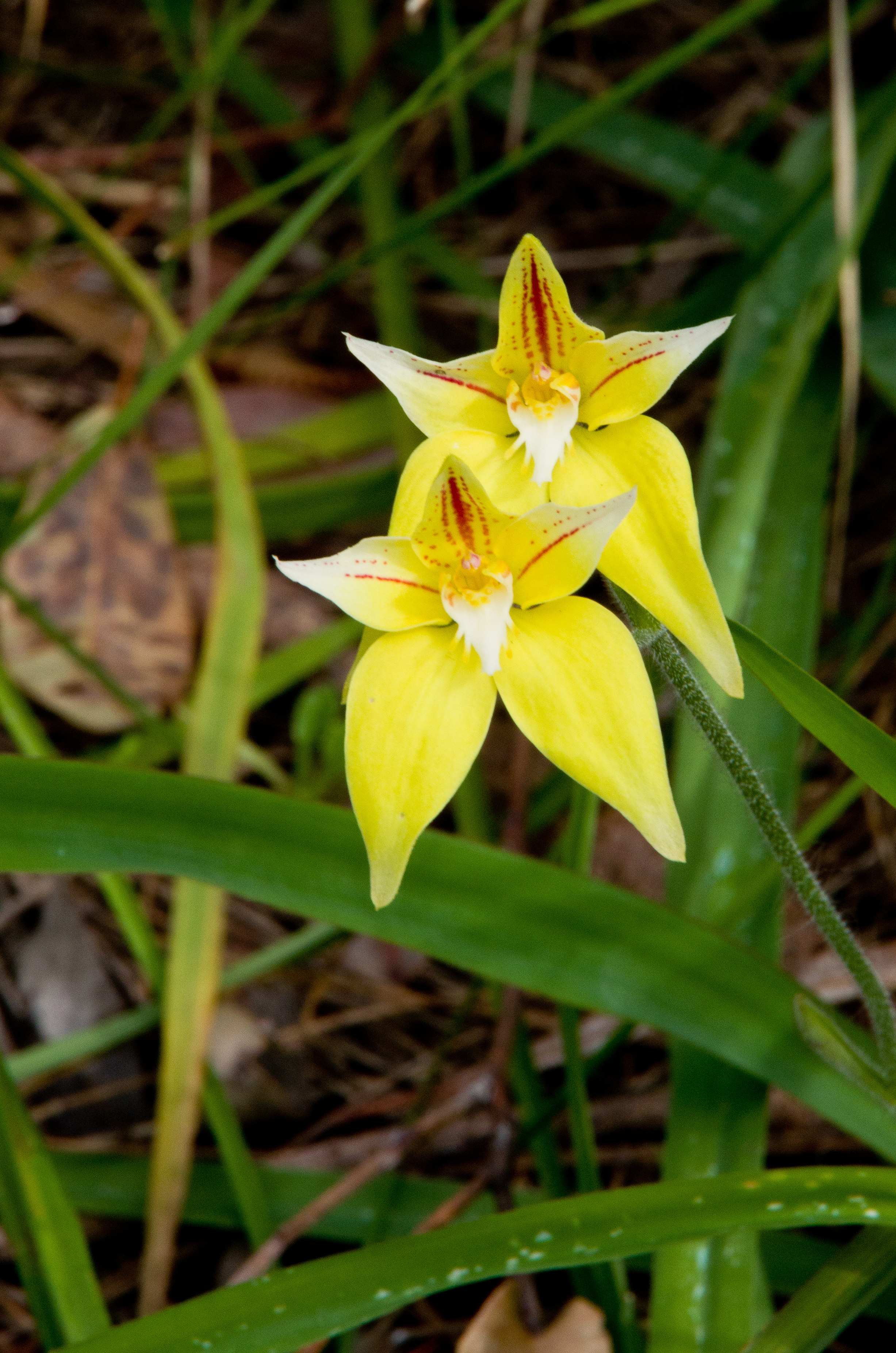 flowering in bushland the bertram area Caladenia flava